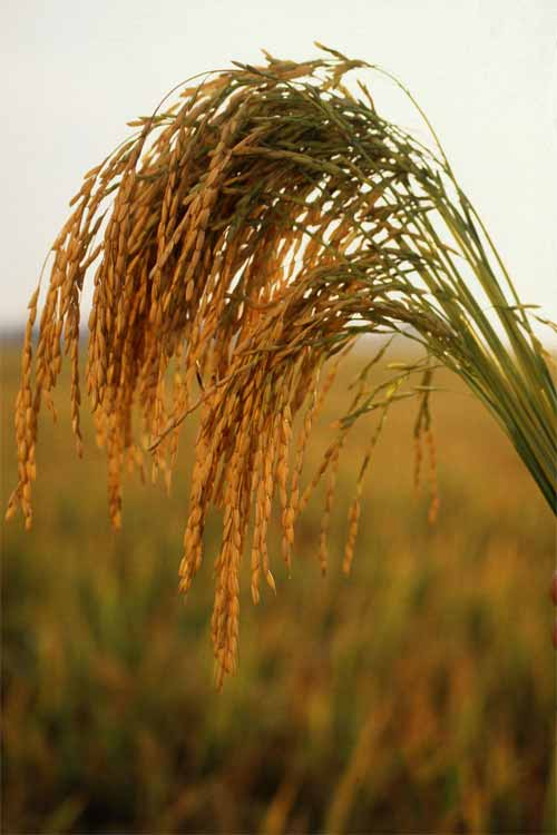 U.S. long grain rice